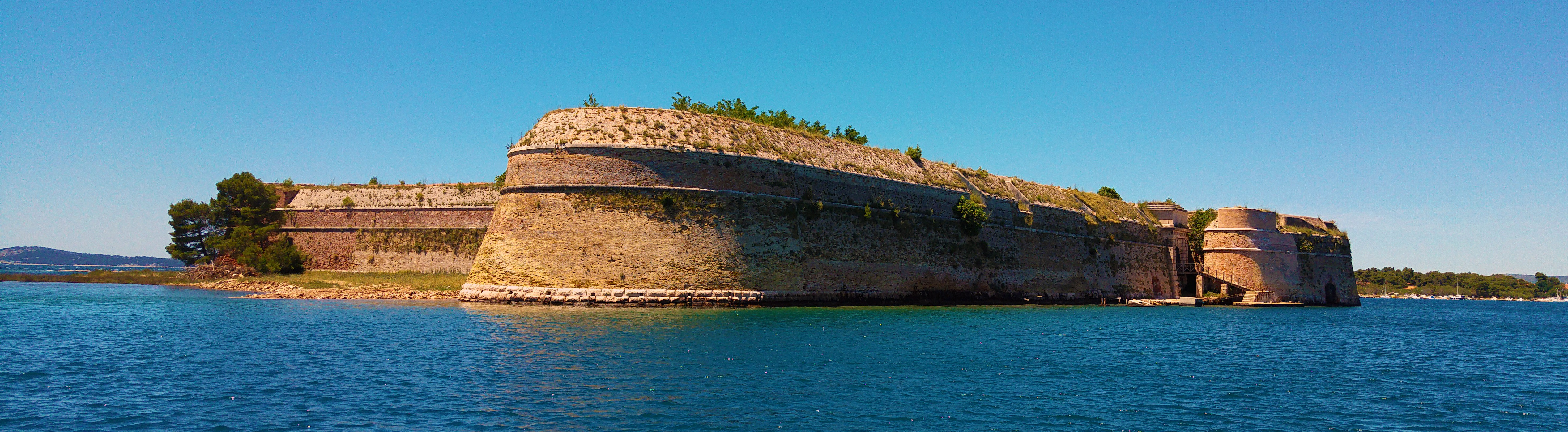 Saint-Nicholas Fortress in Šibenik